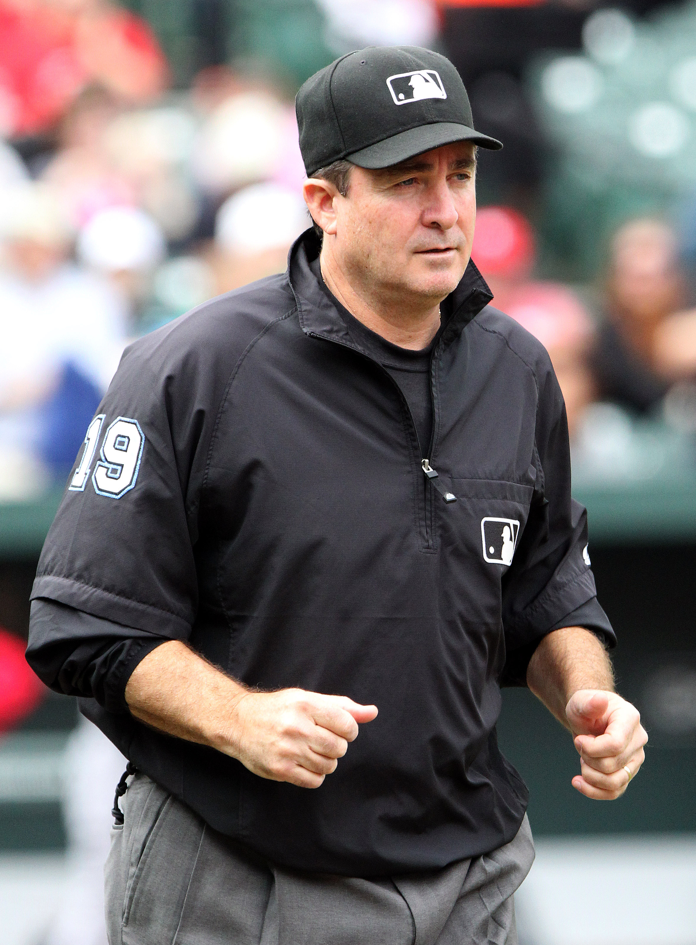 Angels at Orioles September 18, 2011